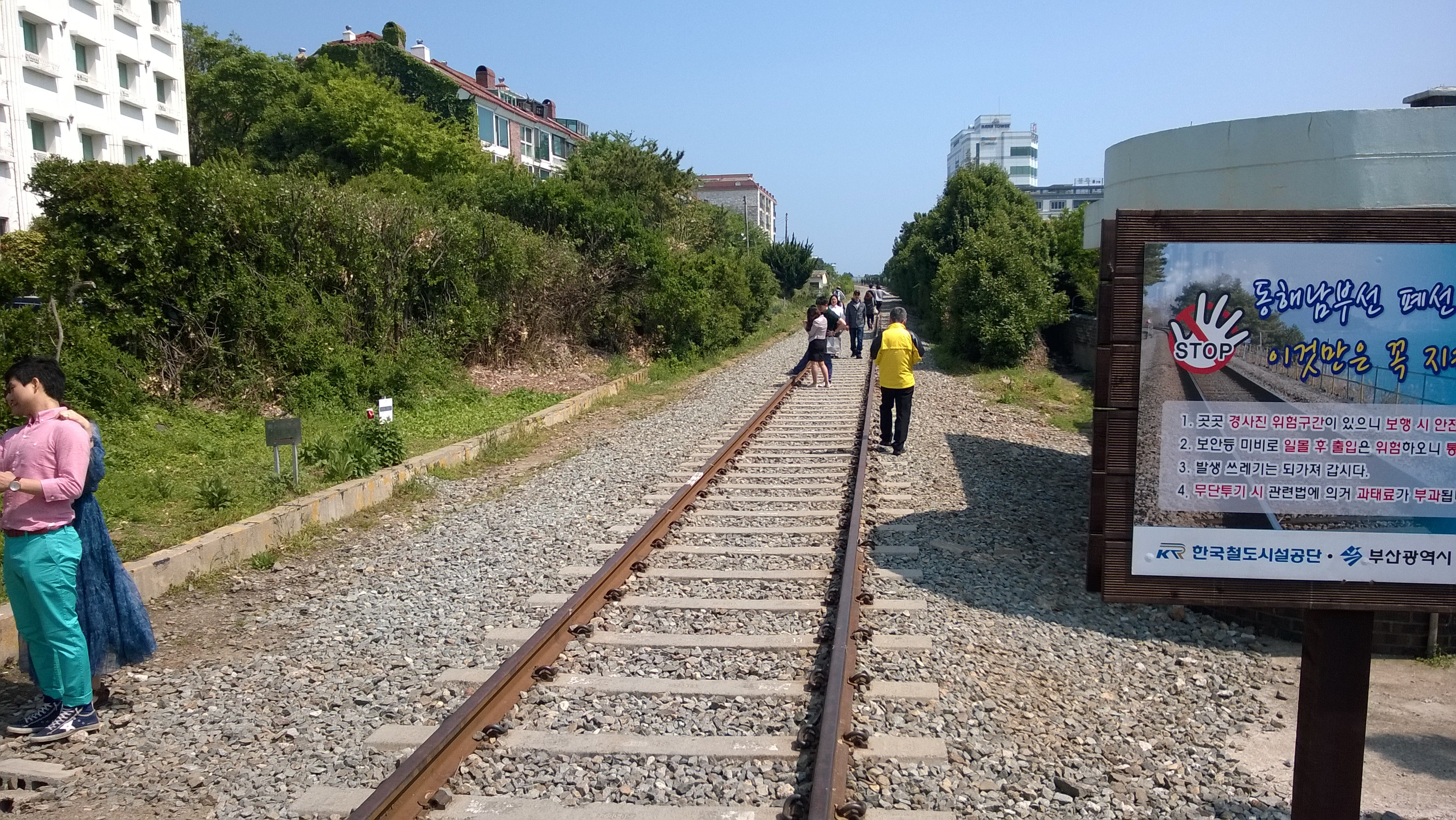 Recently decommissioned rail line in Haeundae